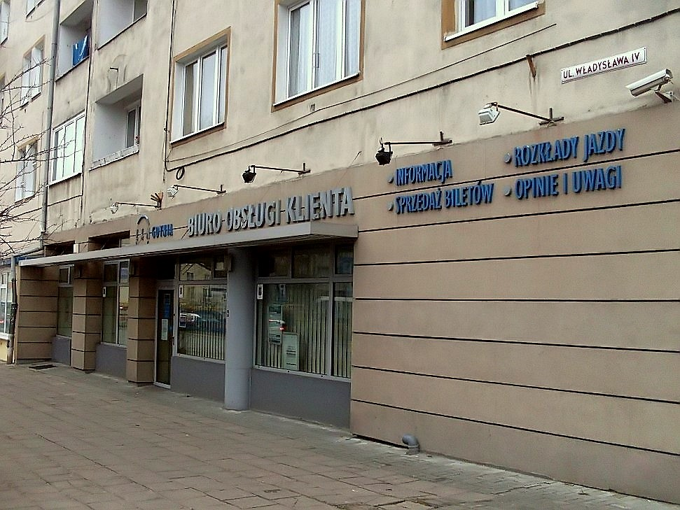 Service bureau of Management Of Public Transport in Gdynia at ulica Władysława IV.